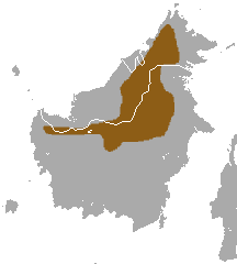 Mountain Treeshrew (Tupaia montana) range